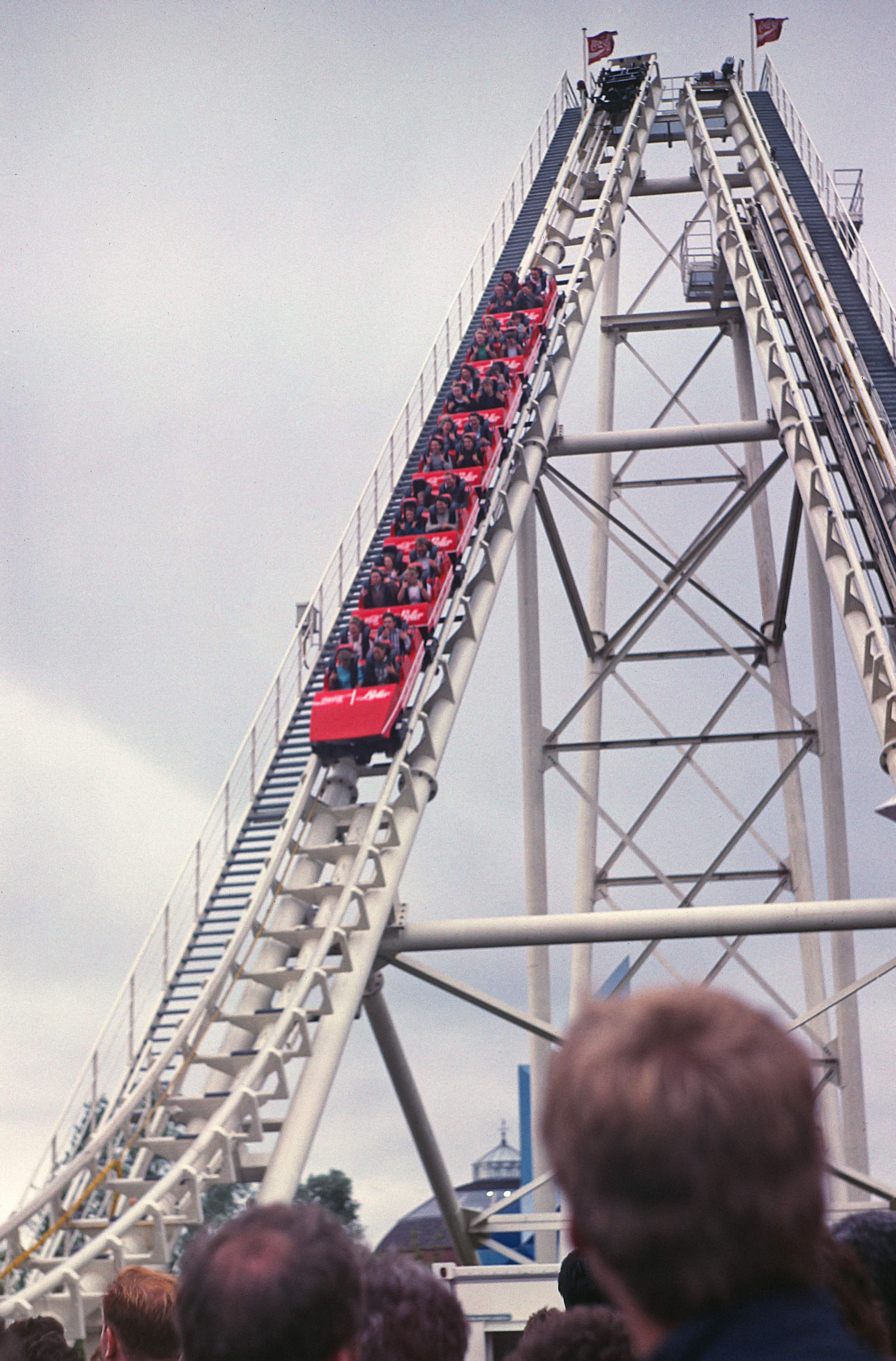 The "lift" section of the Coca Cola Roller roller coaster, at Glasgow Garden Festival 1988